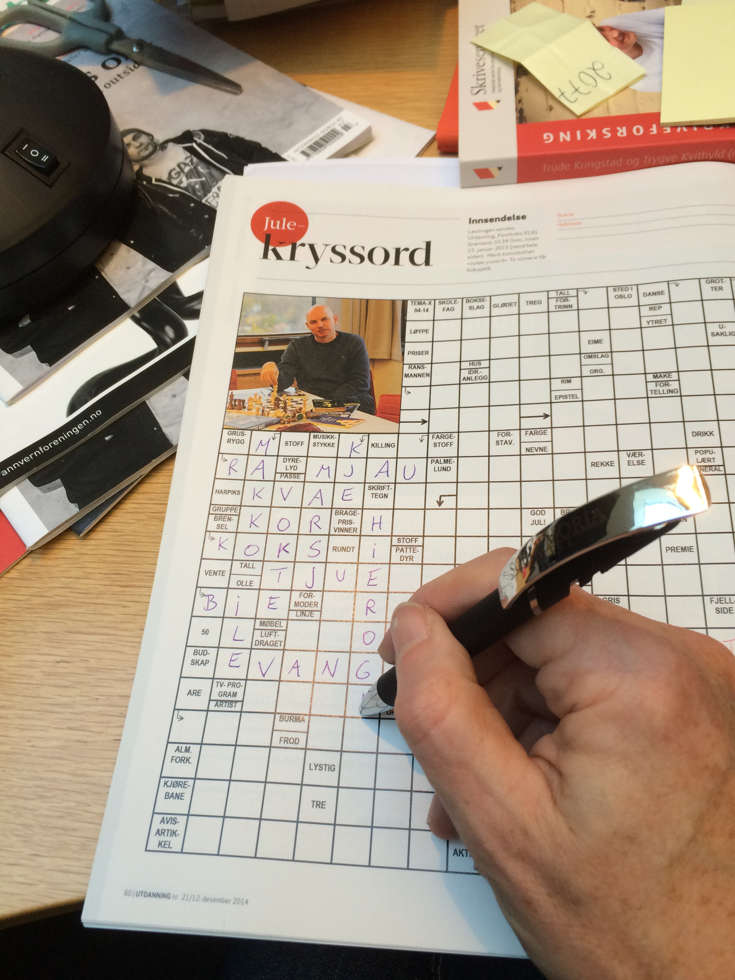 Norwegian Crossword puzzle solved using ballpoint pen.